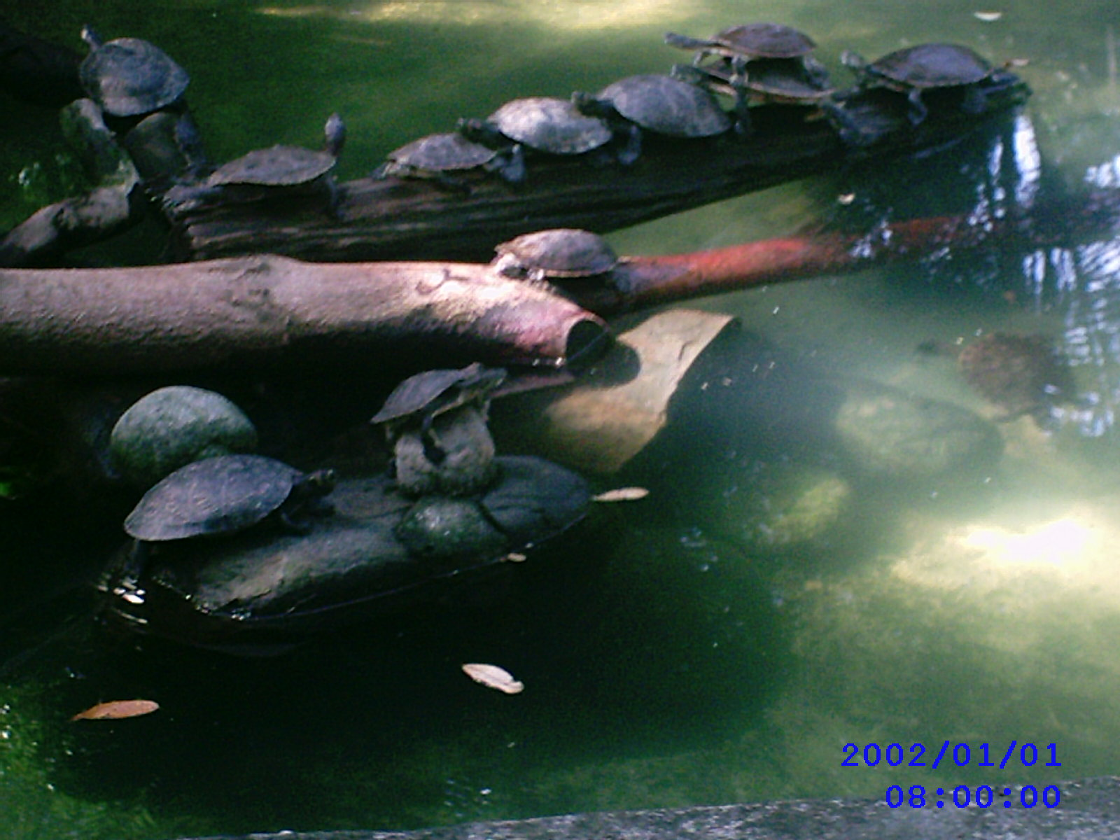 The tortoise area in Rio de Janeiro's zoological garden.